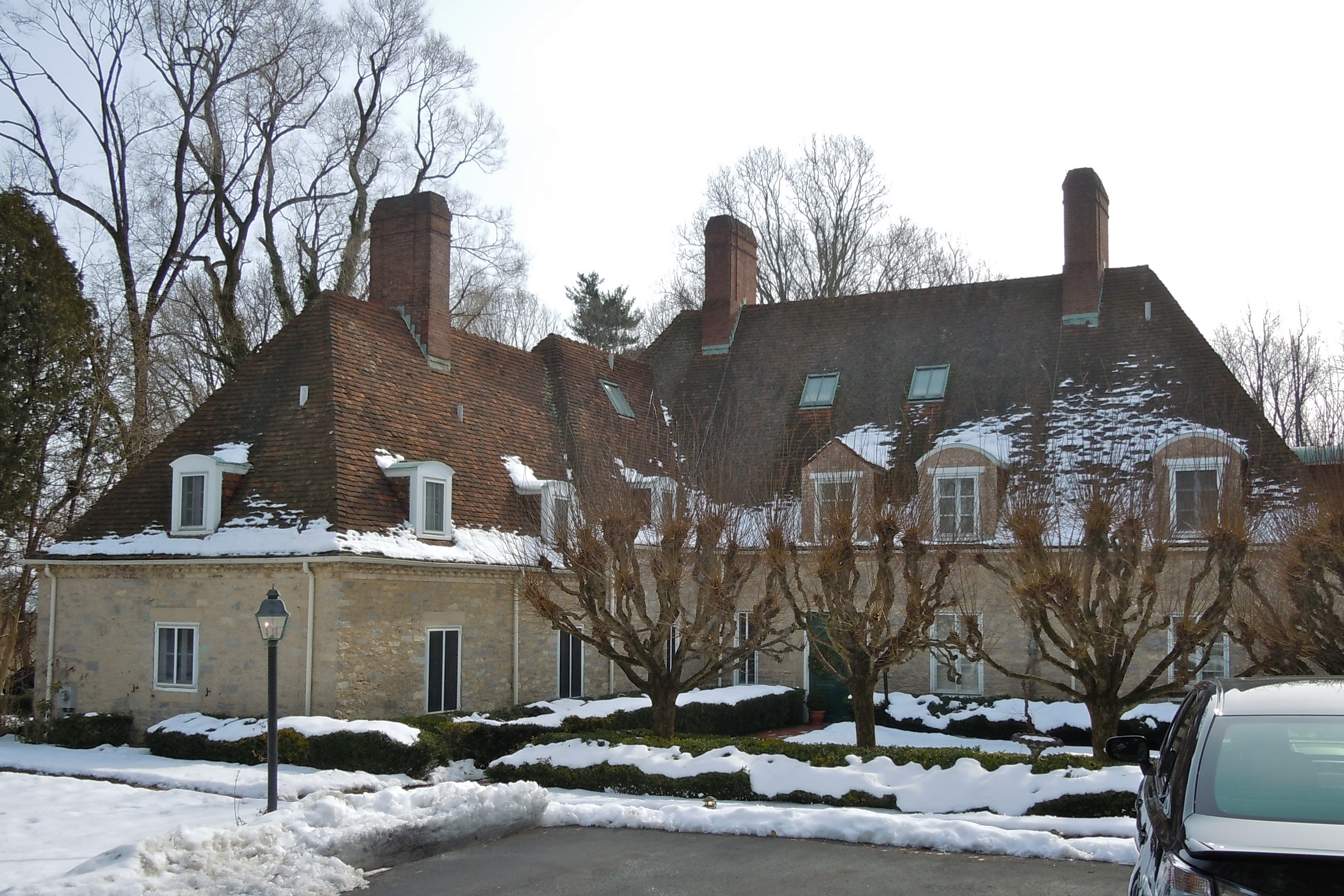 "Autun" mansion on the NRHP since September 6, 1984, at 371 East Boot Road, West Whiteland Township, Chester County, Pennsylvania. Boot Road is a general or historical address. This 1900s mansion has had a very interesting adaptive re-use. The grounds are now full of wood construction little copies of the old stone mansion, divided up into apartments. "Autumn Road" (sic) runs through the complex. Very nice apartments, but I'm not so sure about the landmark itself.